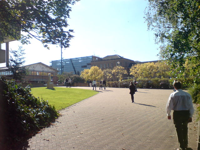 University of Leicester campus.